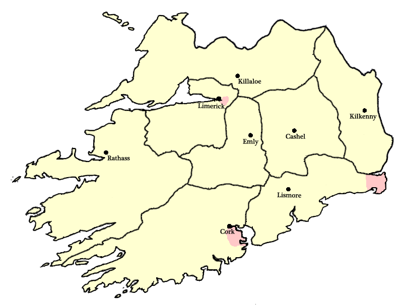 Munster, Synod of Rathbreasail (circa 1111).